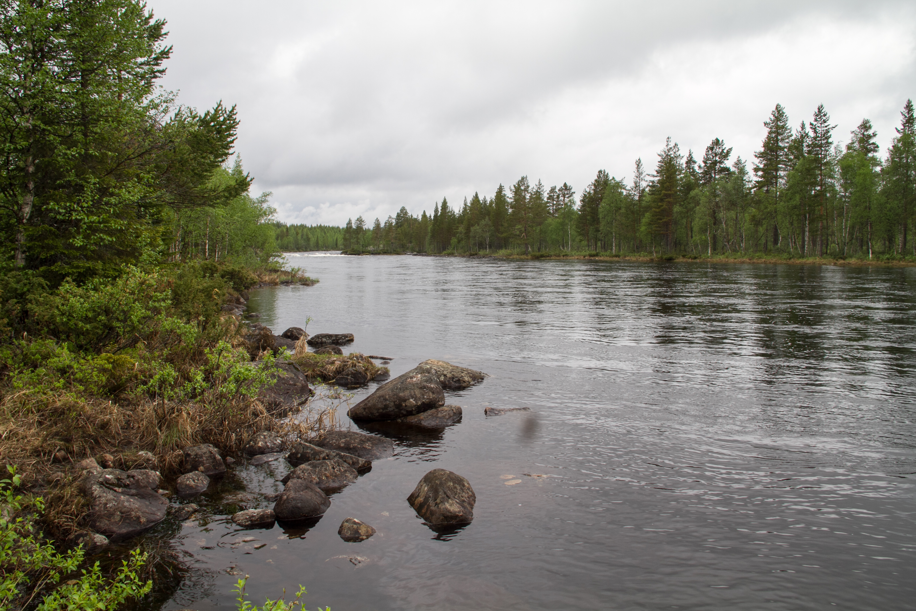 The whitewater rapid Hällselefallet in Byske river, Arvidsjaur municipality, Norrbotten county, Sweden